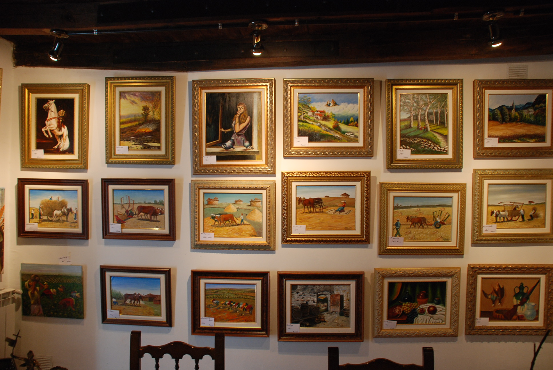 Benjamín Jorde museum in Olea de Boedo (Palencia, Castile and León).